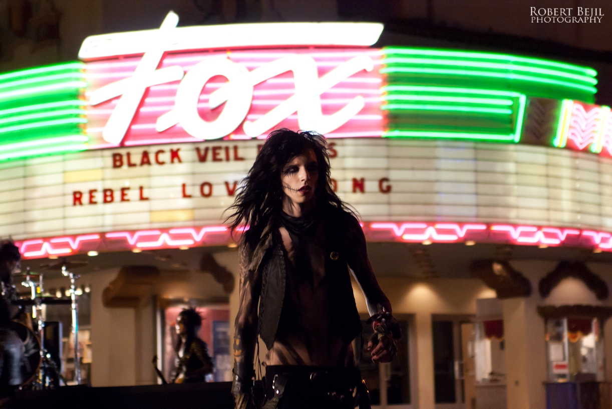 Behind the scenes shots of Black Veil Brides shooting their music video for "Rebel Love Song".